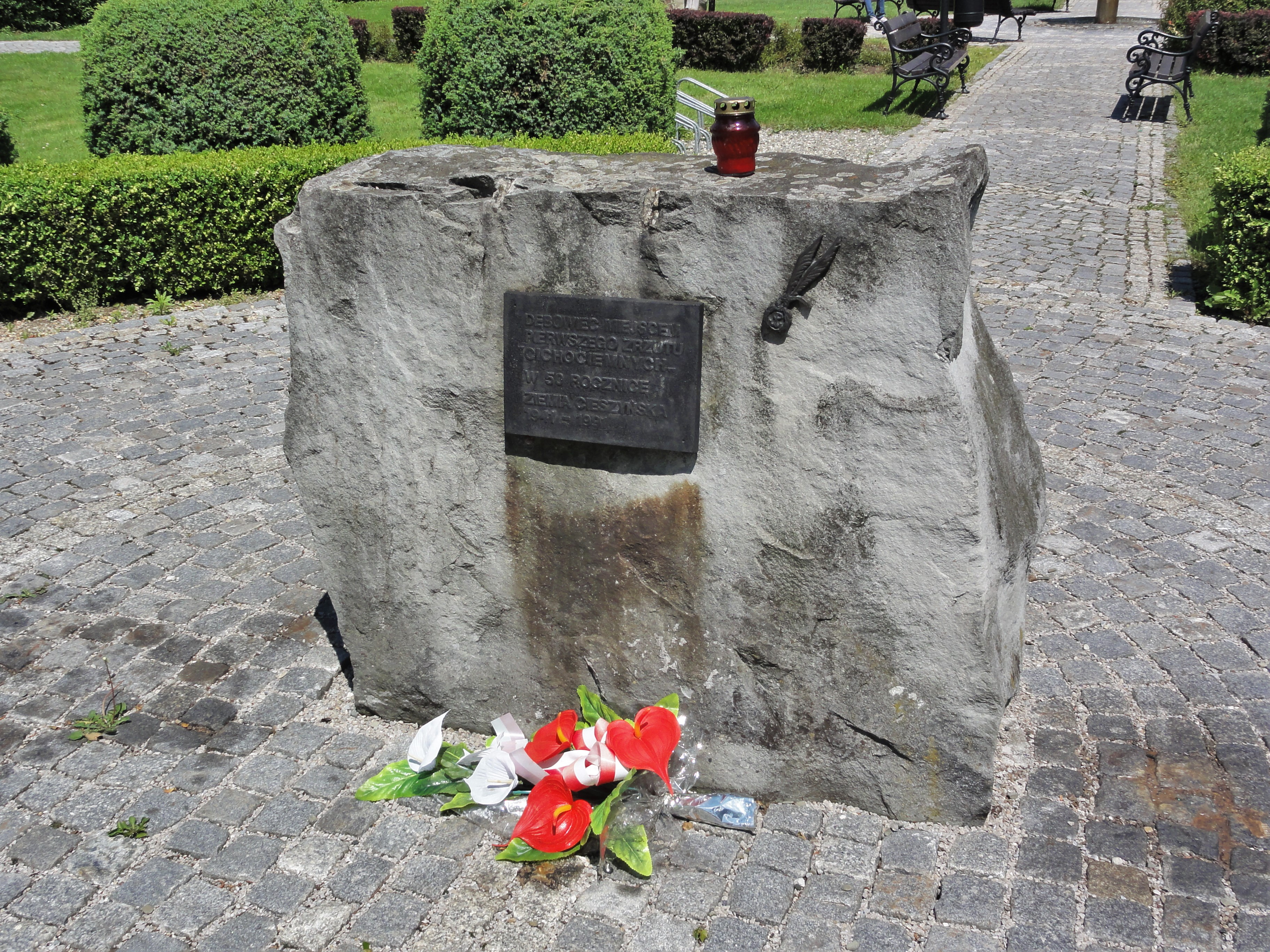 Monument of Cichociemni in Dębowiec